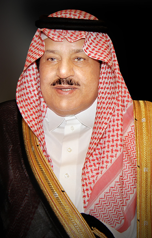 Crown Prince of Saudi Arabia, Nayef bin Abdul Aziz Al Saud.